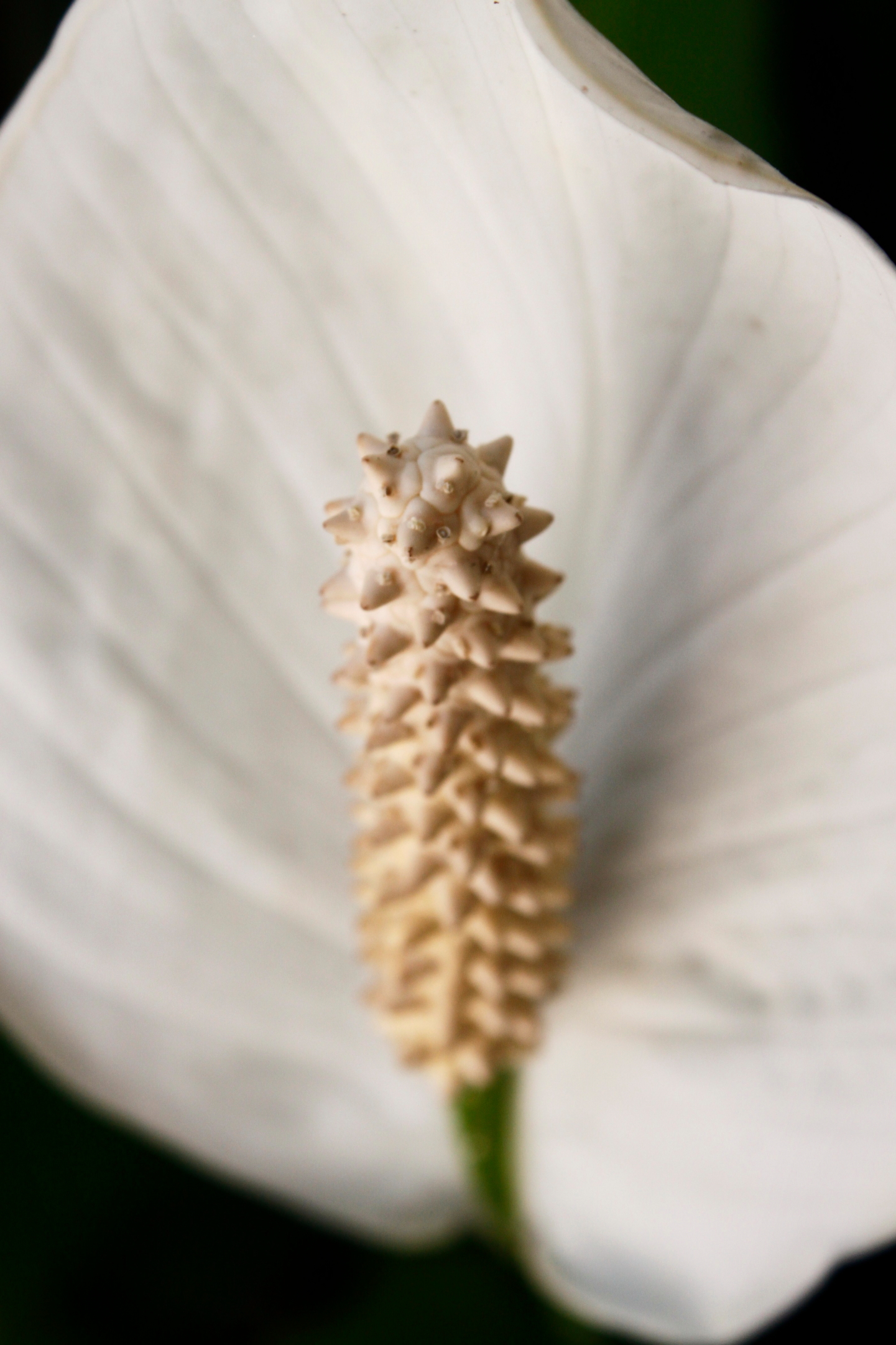 detail of a Spadix of Spathiphyllum wallisii